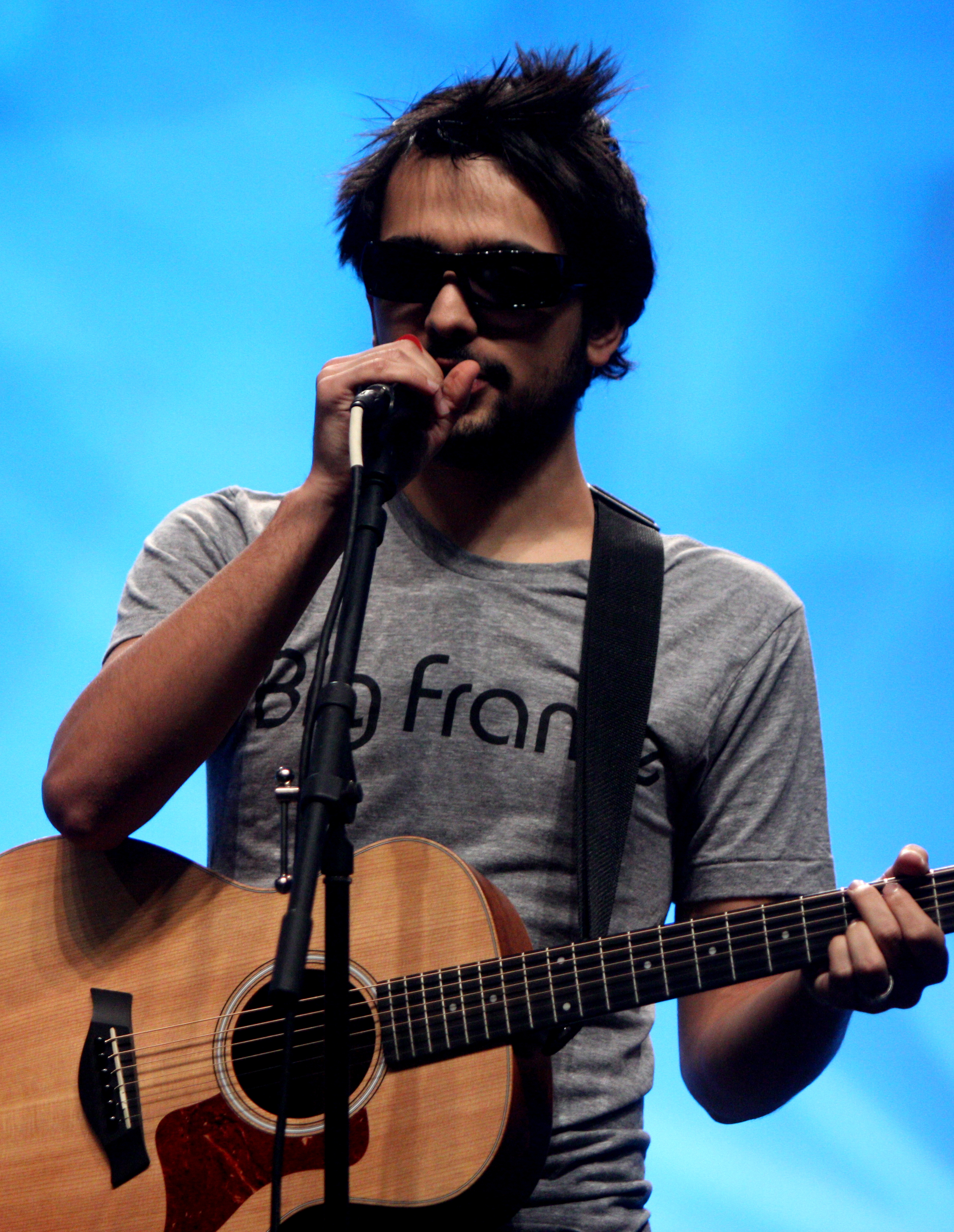 Joe Penna at the 2012 VidCon in Anaheim, California.